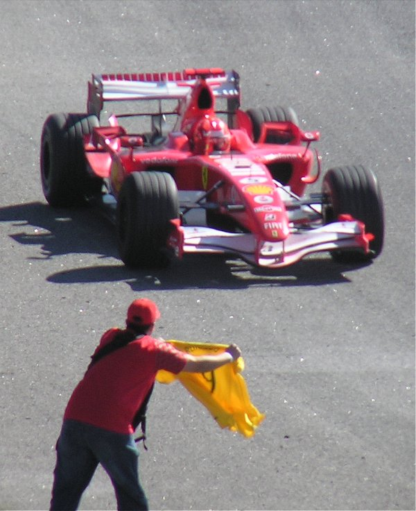 Formula One 2006 Rd.18 Interlagos: #5 Michael Schumacher (Scuderia Ferrari), after the end of race